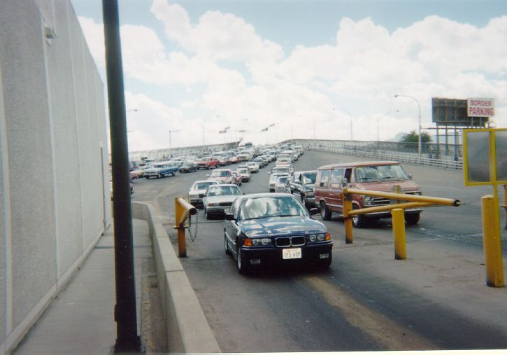 Traffic entering the US from Mexico on Bridge of the Americas in 2002